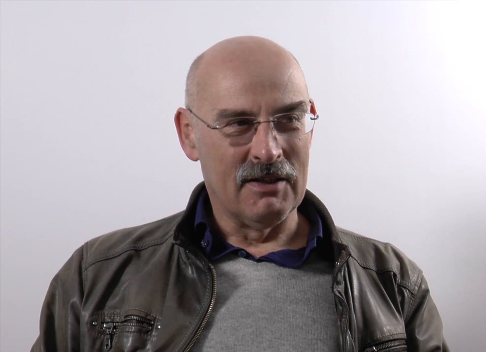 Interview with Maurizio Lazzarato for the Leuphana University of Lüneburg's Digital Cultures Research Lab as a part of the DCRL-interview-series “Questions" conducted.